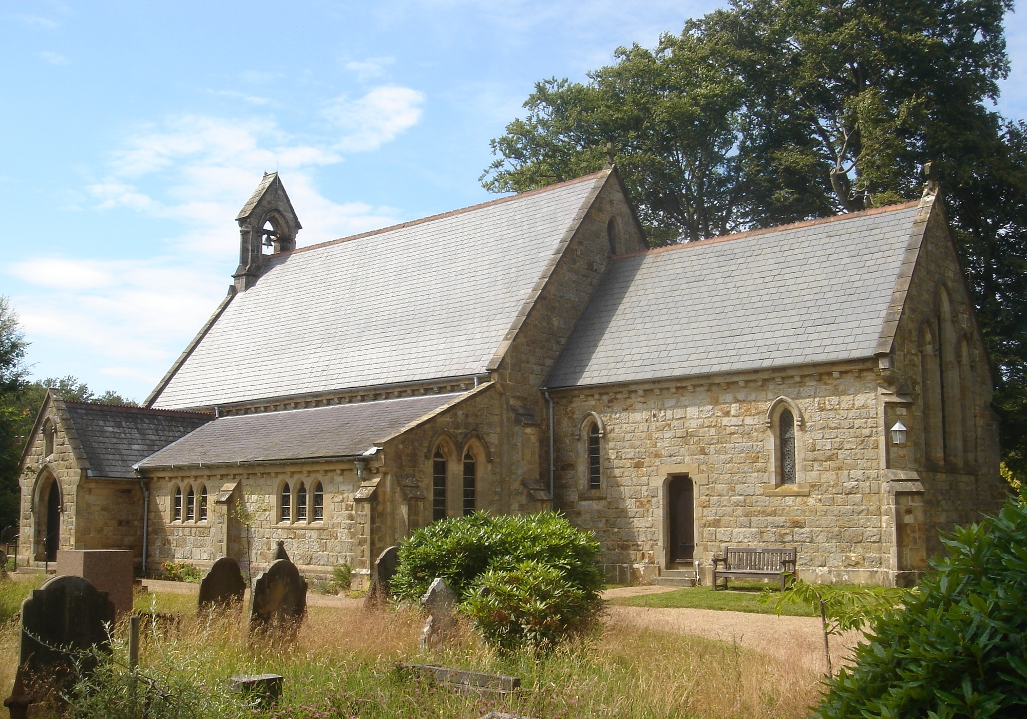 All Saints Church, Crawley Down, District of Mid Sussex, West Sussex, England. The parish church of the village of Crawley Down, southwest of East Grinstead; built in 1843–44 in the Early English style.